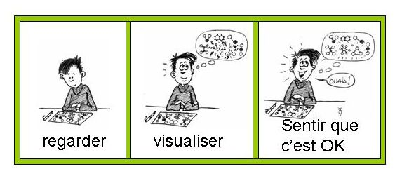 Memorisation strategies according to NLP.